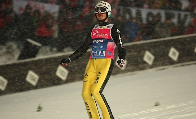 Simon Ammann during Adam's Bull's Eye on 26 March 2011 in Zakopane.